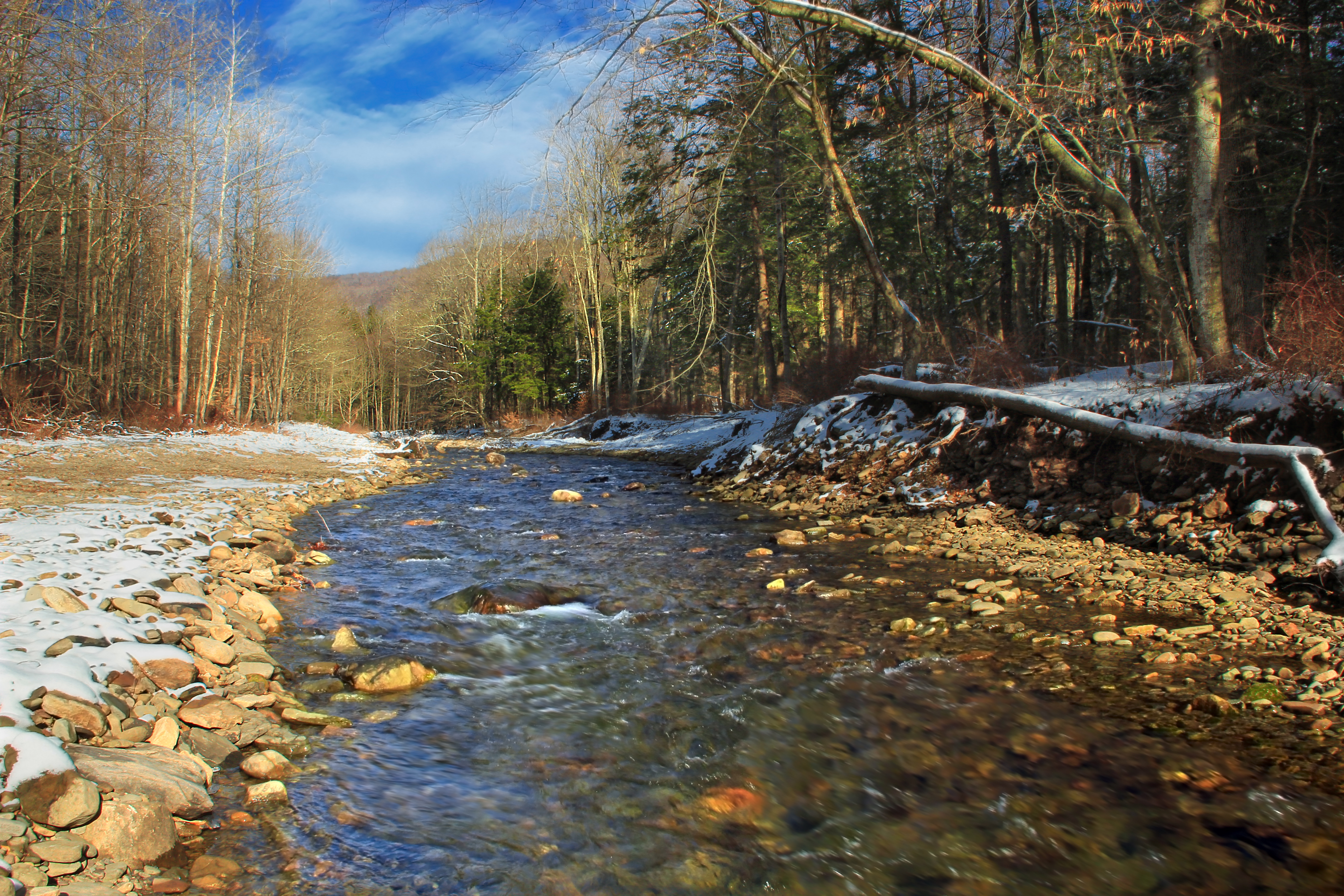 East Branch Fishing Creek, within State Game Land 13, Columbia County–Sullivan County line, Pennsylvania, USA.